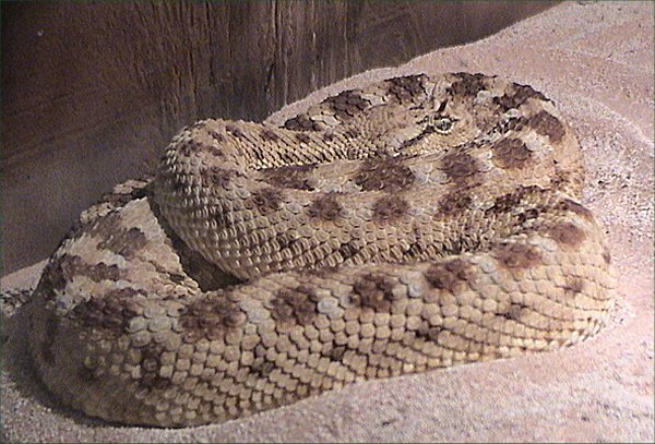 Cerastes cerastes